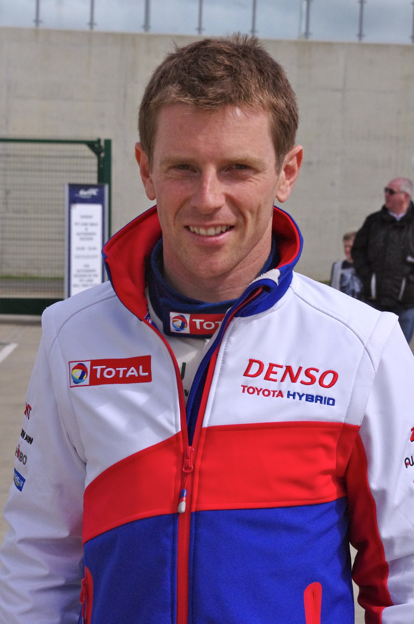 Anthony Davidson at the Silverstone Round of the 2014 FIA World Endurance Championship